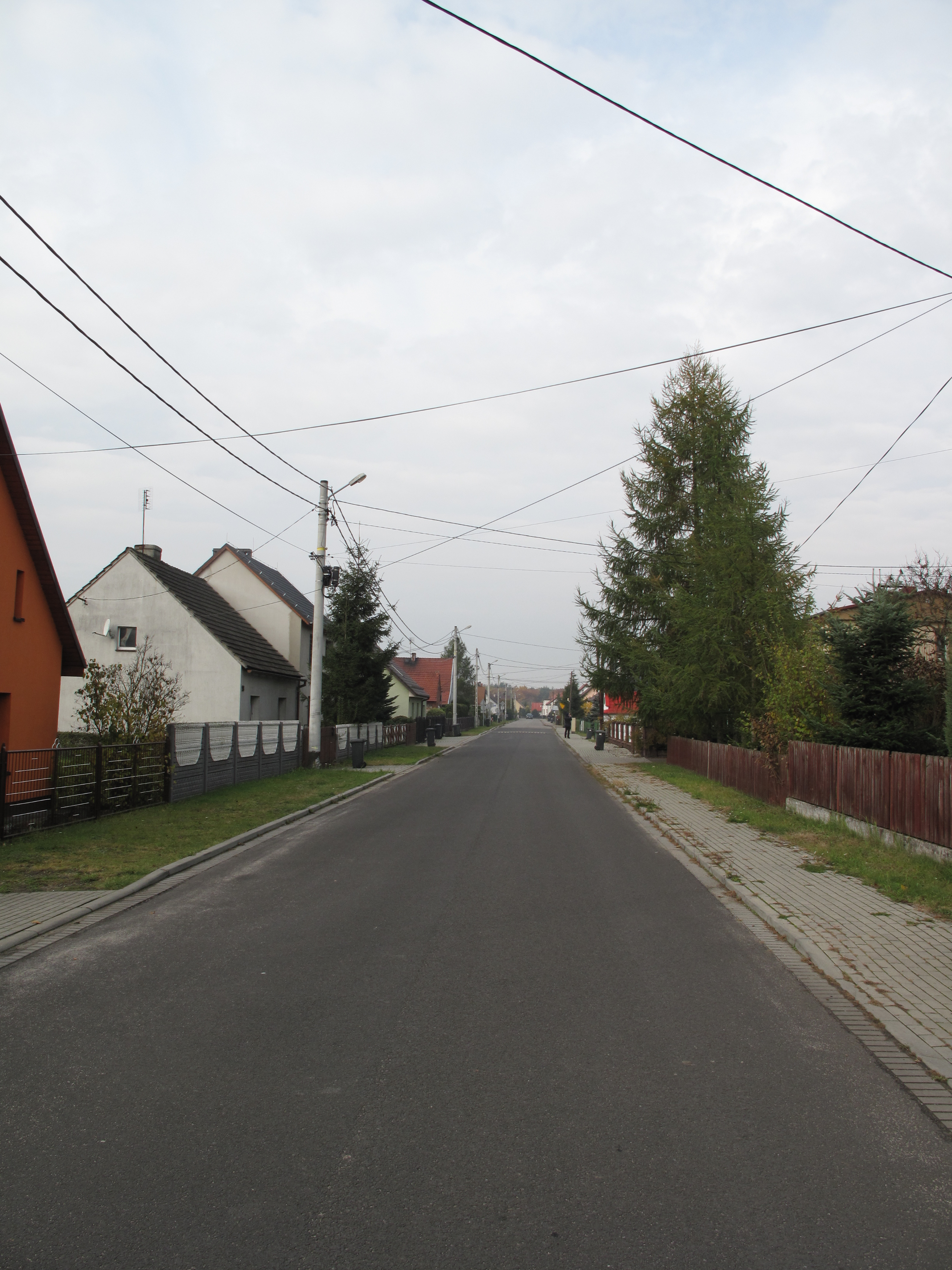 Grabówka, Kędzierzyn-Koźle County, Poland